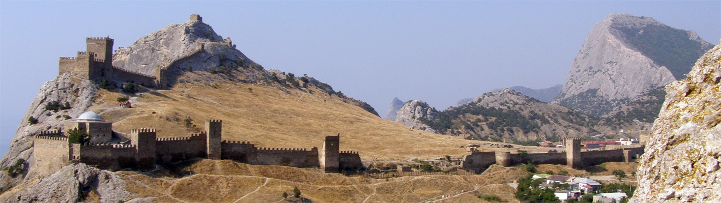 Genoese fortress in Sudak, Ukraine